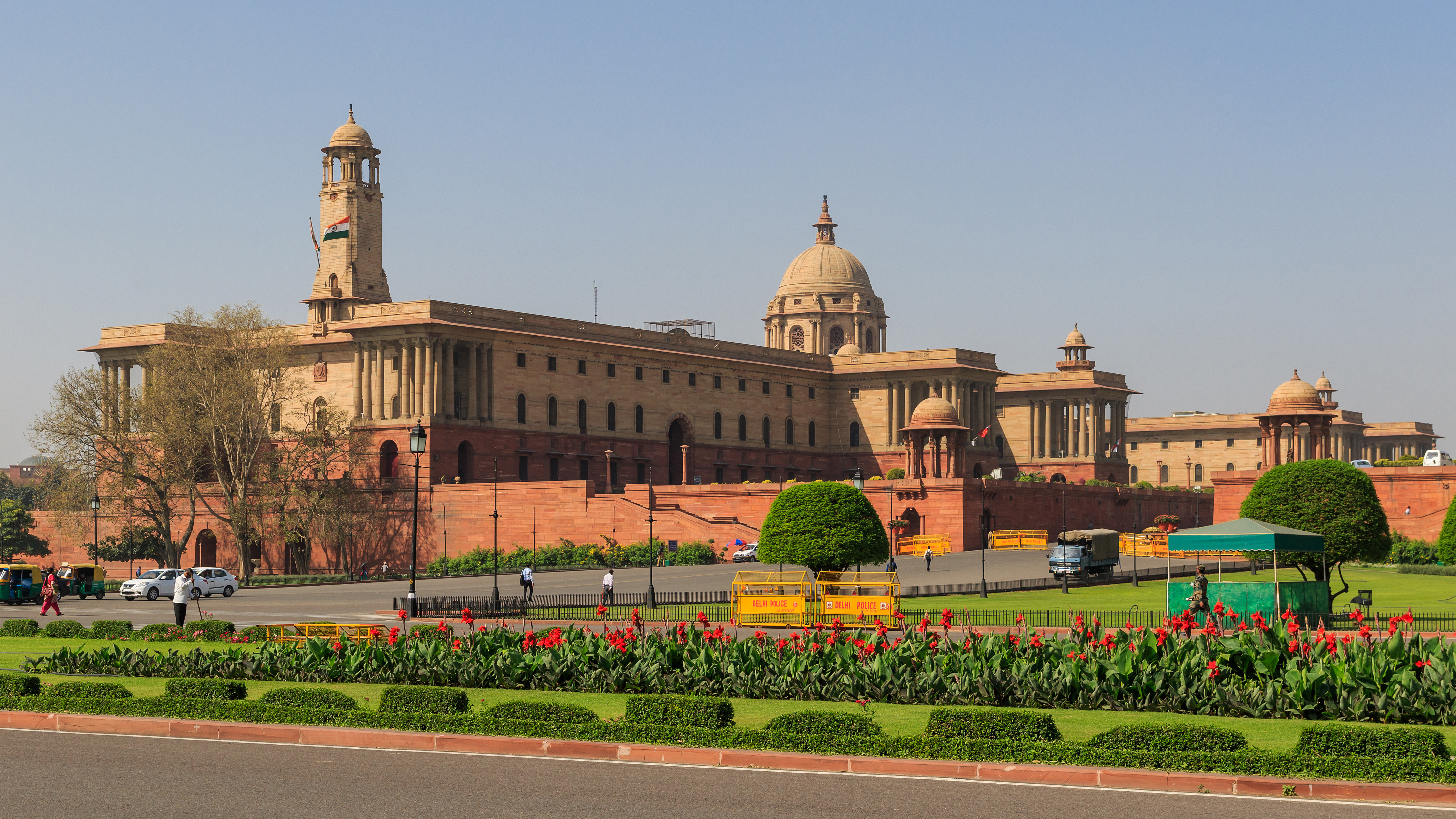 Ensemble of Government buildings on Rajpath in New Delhi, India